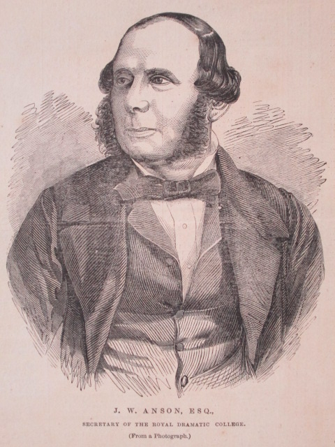 The Brtish actor John William Anson (1817-1881)